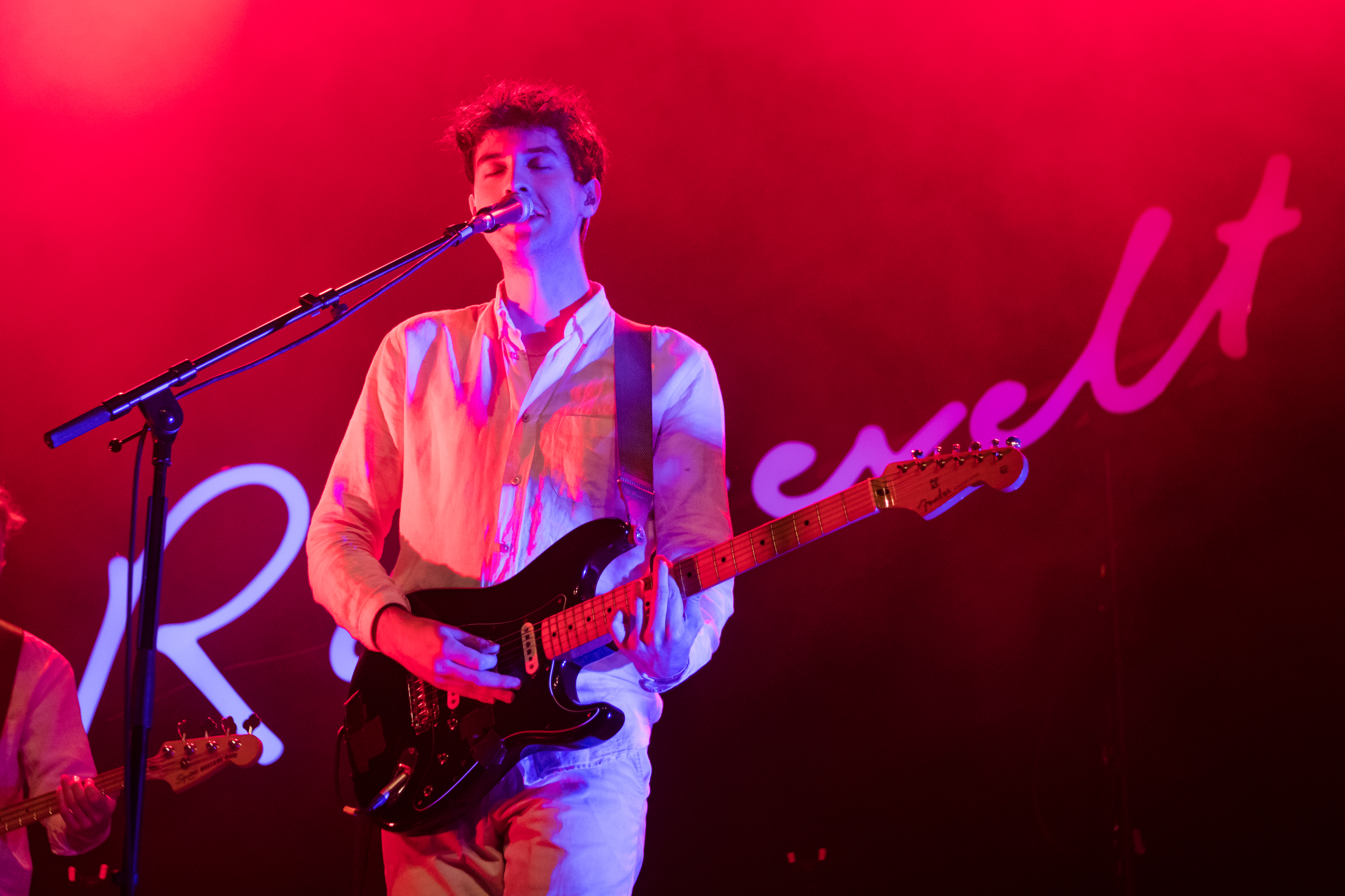 Roosevelt at Way Back When Festival 2017 in Dortmund